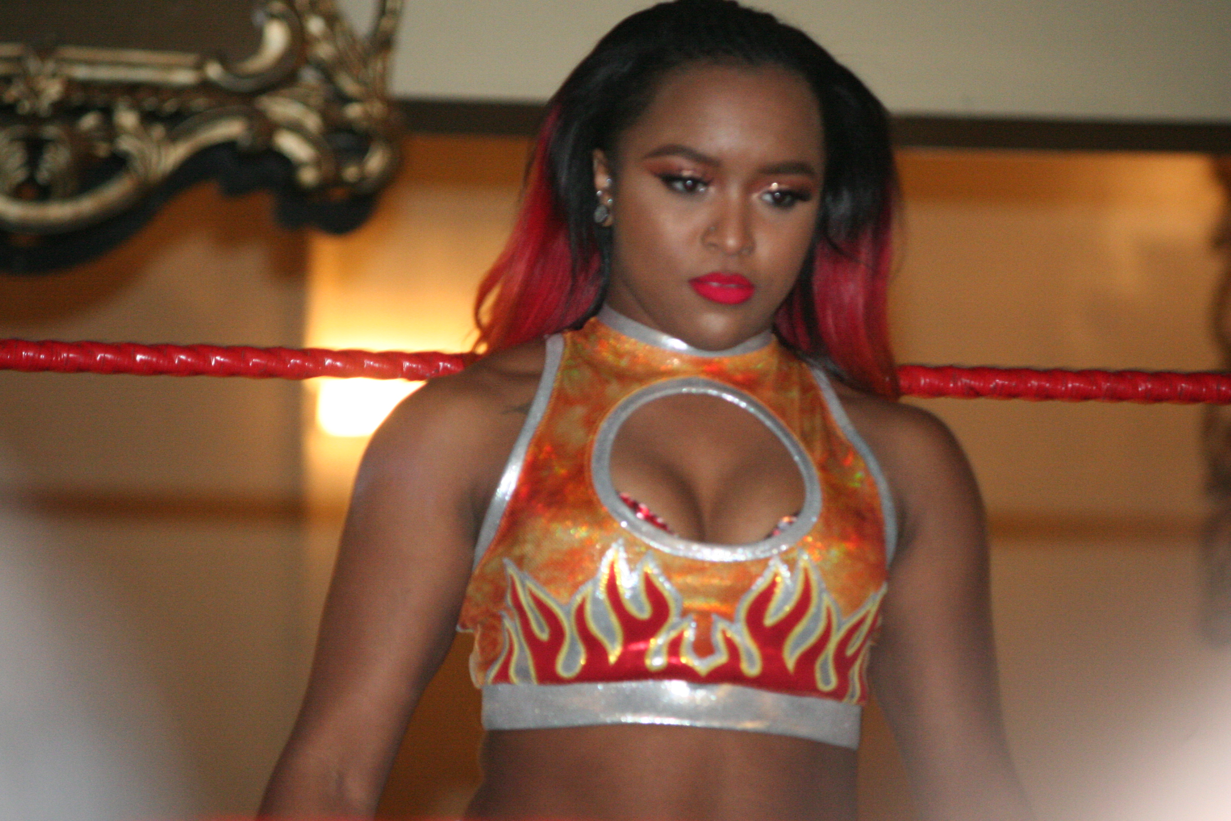 Kiera Hogan at an AWE show in December 2017.